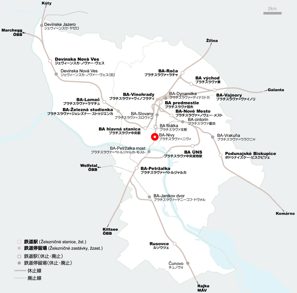 Location map of Železničná stanica Bratislava-Nivy with Japanese language